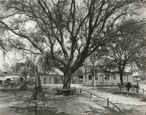 the winter studios of the Kalem Company showing outbuildings on the grounds of the Roseland Hotel on the St. Johns River near Jacksonville, Florida. The canon were used in Kalem's Civil War themed productions like "The Drummer Girl of Vicksburg" and "The Confederate Ironclad." Kalem filmed there from 1908 until 1917.Creation Date: 1908 ca.; Creator Name: Hollister, George K.